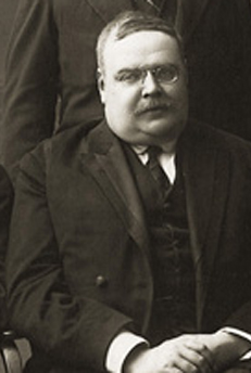 Lithuanian professor Mykolas Römeris